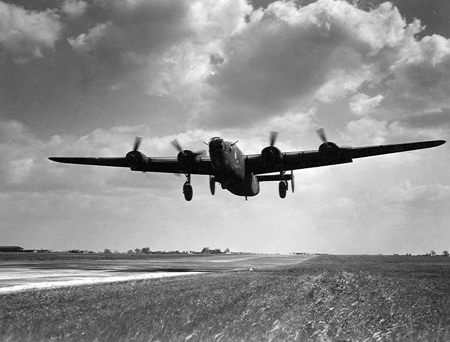 Ford B-24H-15-FO Liberator 42-52425 "The Tweachewous Wabbit" 487bg 837bs